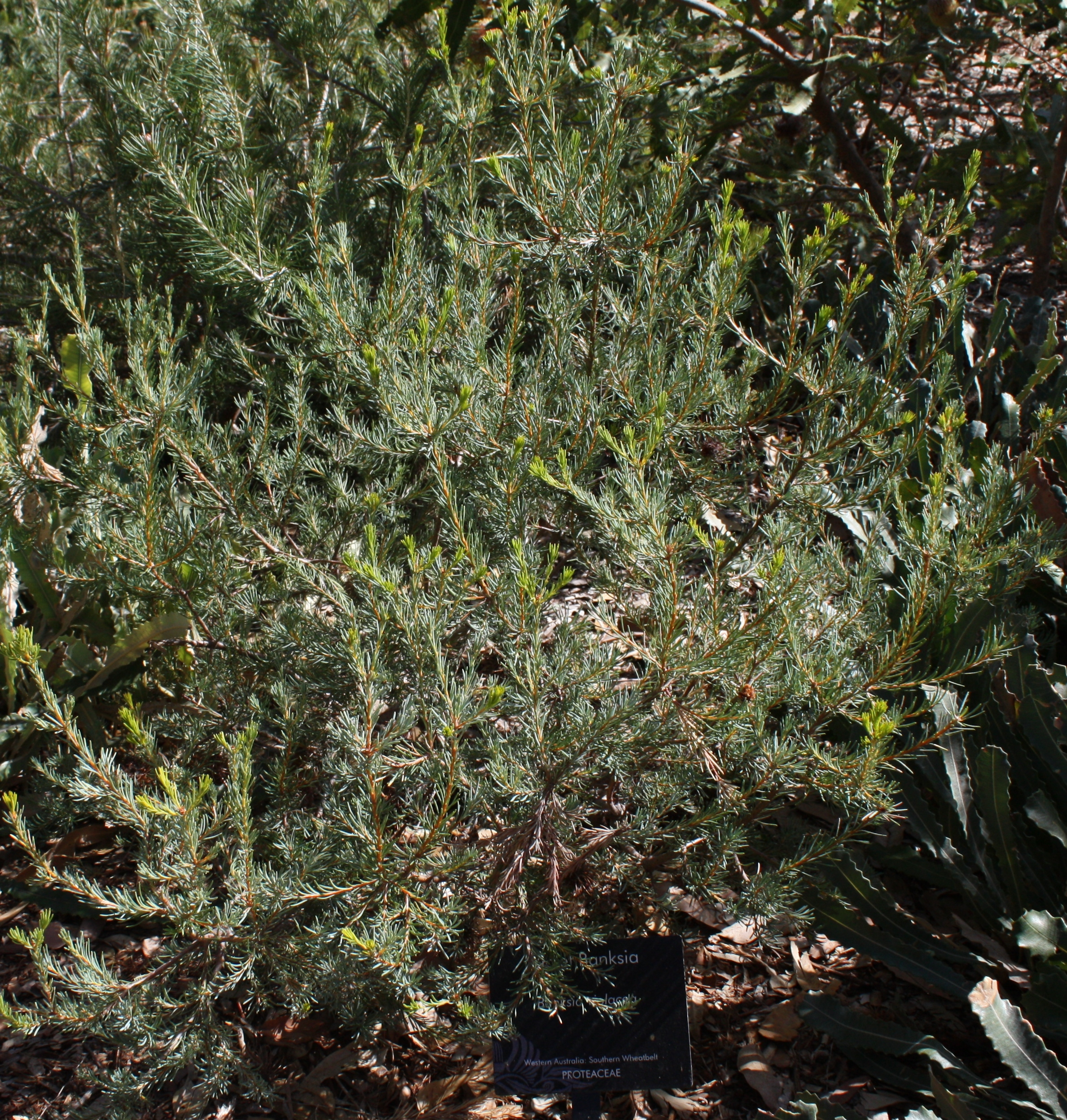 Banksia violacea, in cultivation, Kings Park, Perth, Western Australia